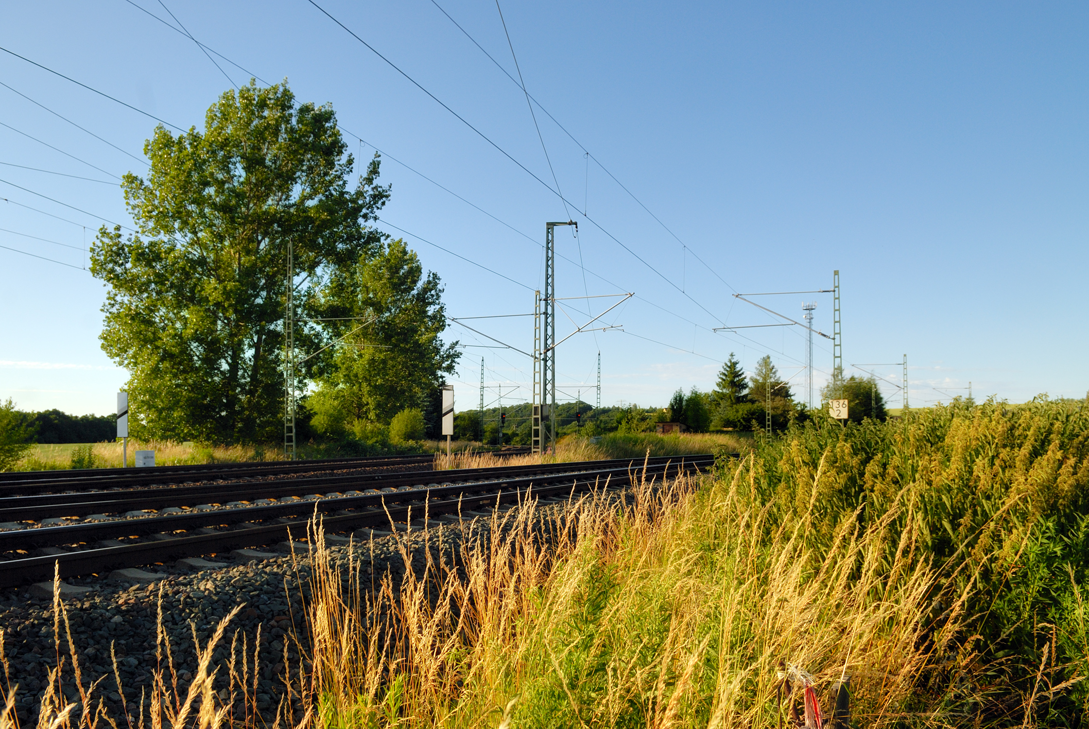 This image shows parts of the tracks of the rail wye Werdau in the town Werdau, Germany.